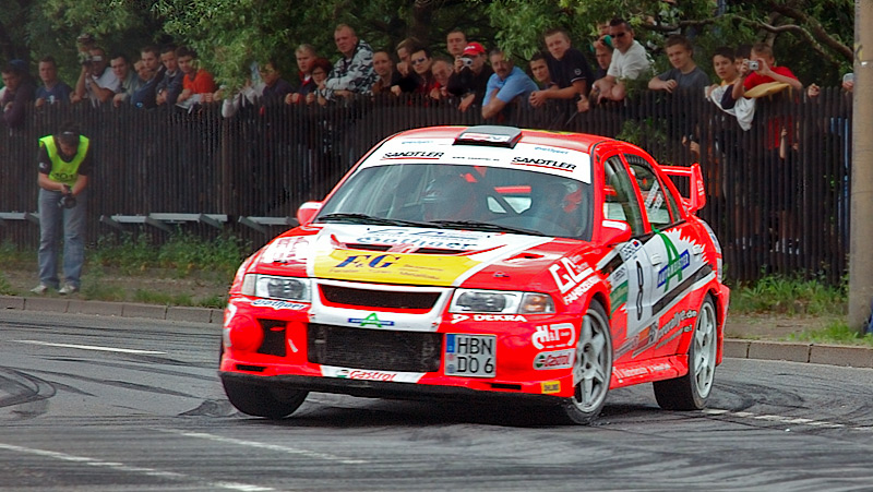 This image shows a Mitsubishi Lancer Evo 6. The driver is Olaf Dobberkau, the co-driver is Katrin Becker. This photo has been taken during the Saxony rally racing 2005 in Zwickau (Germany).